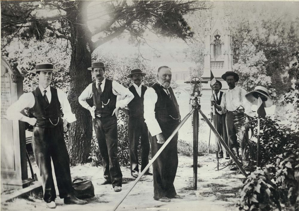 Surveying of Devonshire Cemetery in preparation for the building of Central Railway Station, Sydney. Surveyor: George Melrose. Dated: c. 31/12/1900 Digital ID: 17420_a014_a014000263 Rights: We'd love to hear from you if you use our photos. Many other photos in our collection are available to view and browse on our website using Photo Investigator.